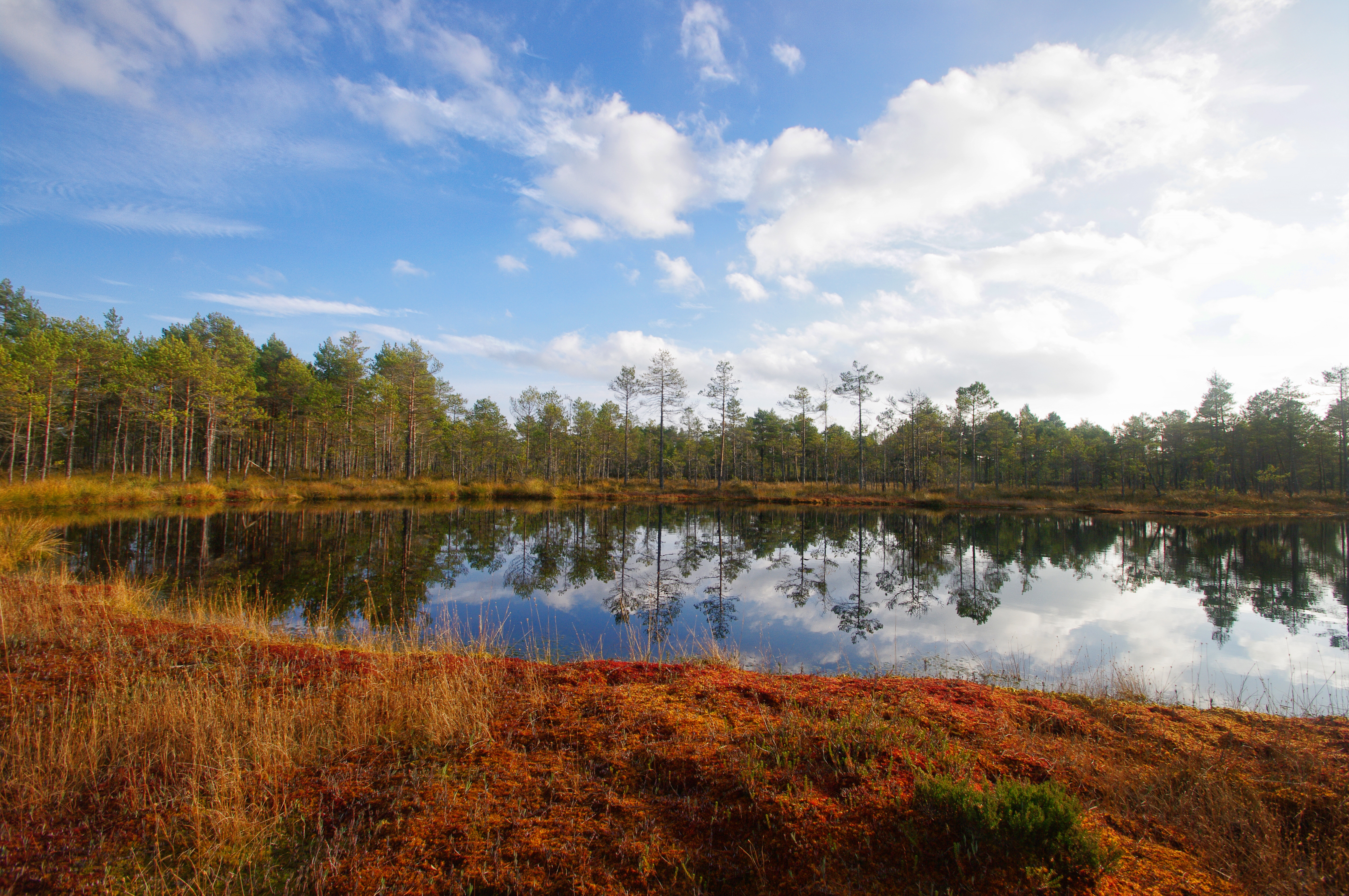 Selisoo bog, Ida-Viru county, Estonia